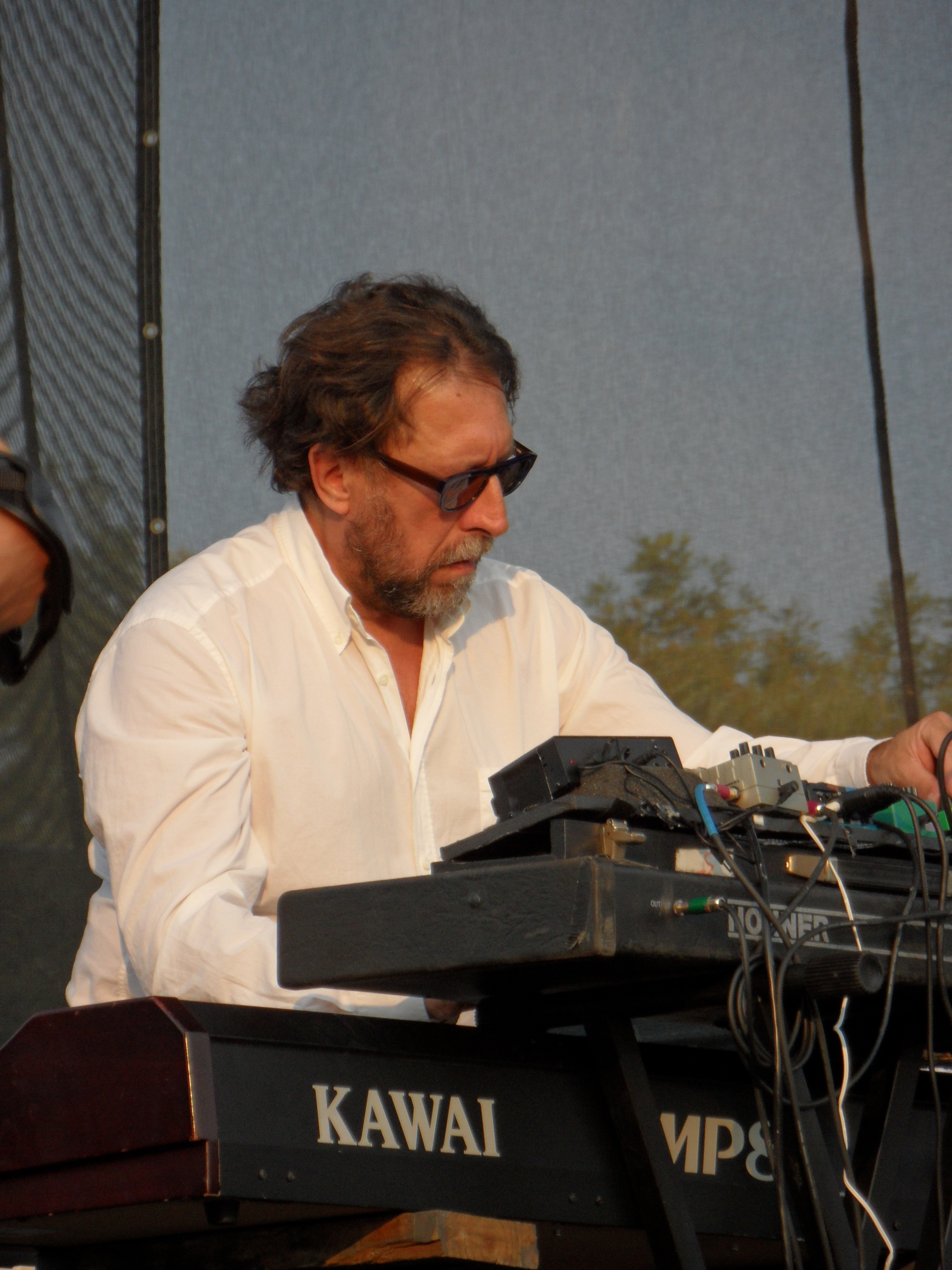 Performing with Elvis Costello and the Imposters at Riot Fest in Chicago 2012